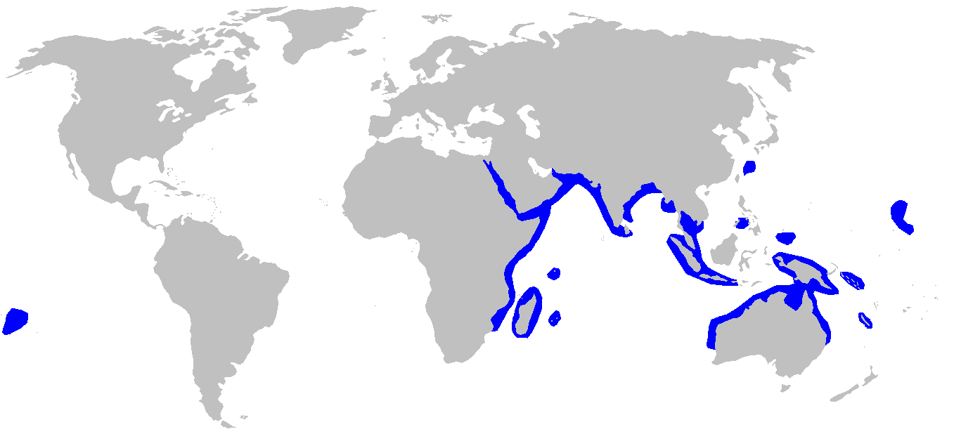 Distribution map for Negaprion acutidens